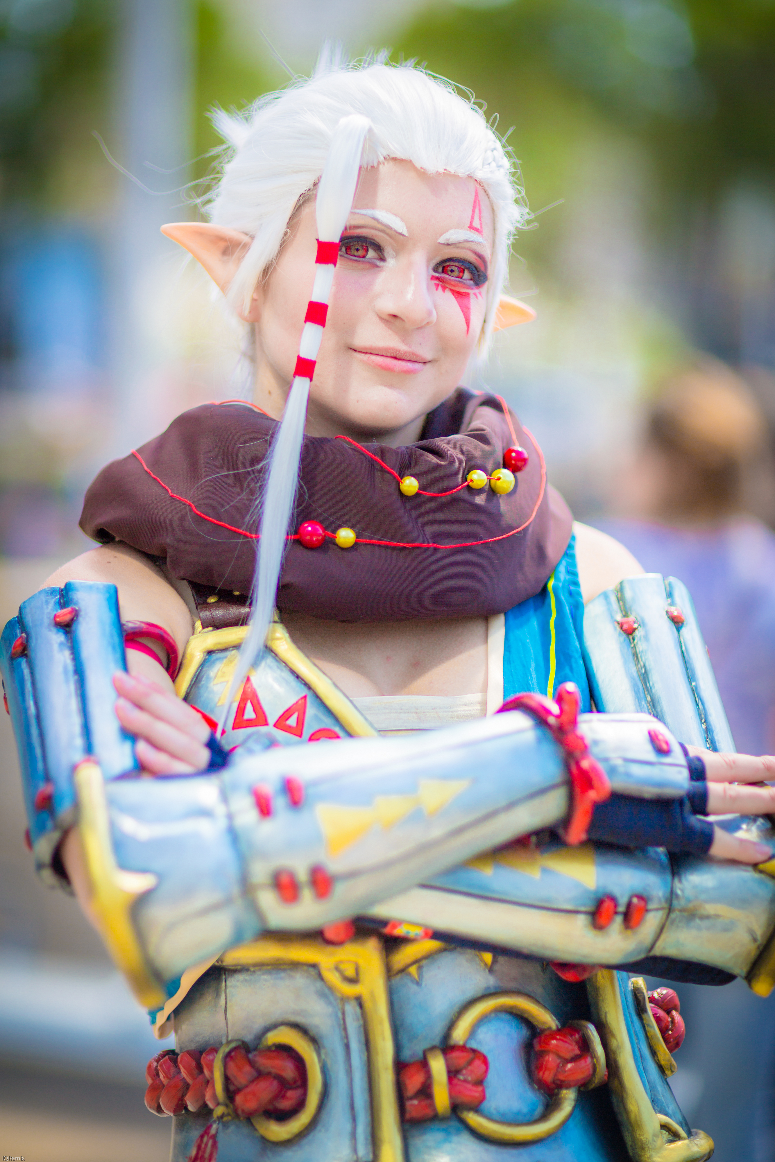 Animethon 2015